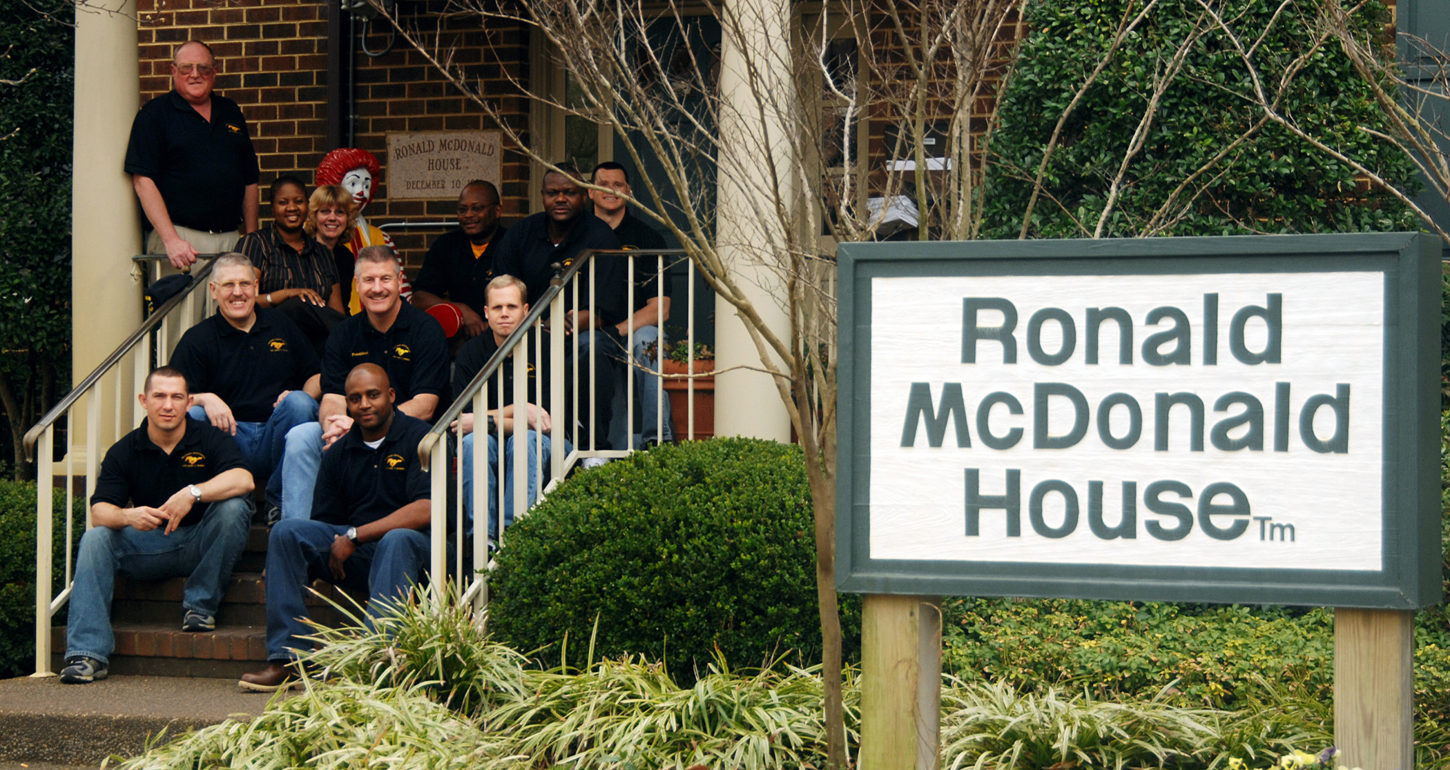 NORFOLK, Va. (March 14, 2007) - Members of the USS Harry S. Truman (CVN 75) Mustang Association pose with staff members on the steps of the Ronald McDonald House. The Mustang Association cooked and served breakfast for staff and guests at the house. Truman is pierside at Naval Station Norfolk. U.S. Navy photo by Seaman Kevin T. Murray Jr. (RELEASED)